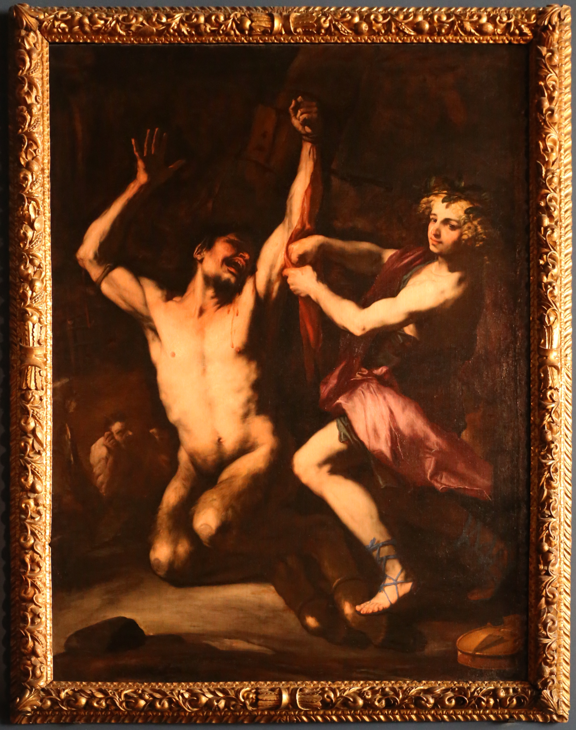 Museo Bardini - Paintings